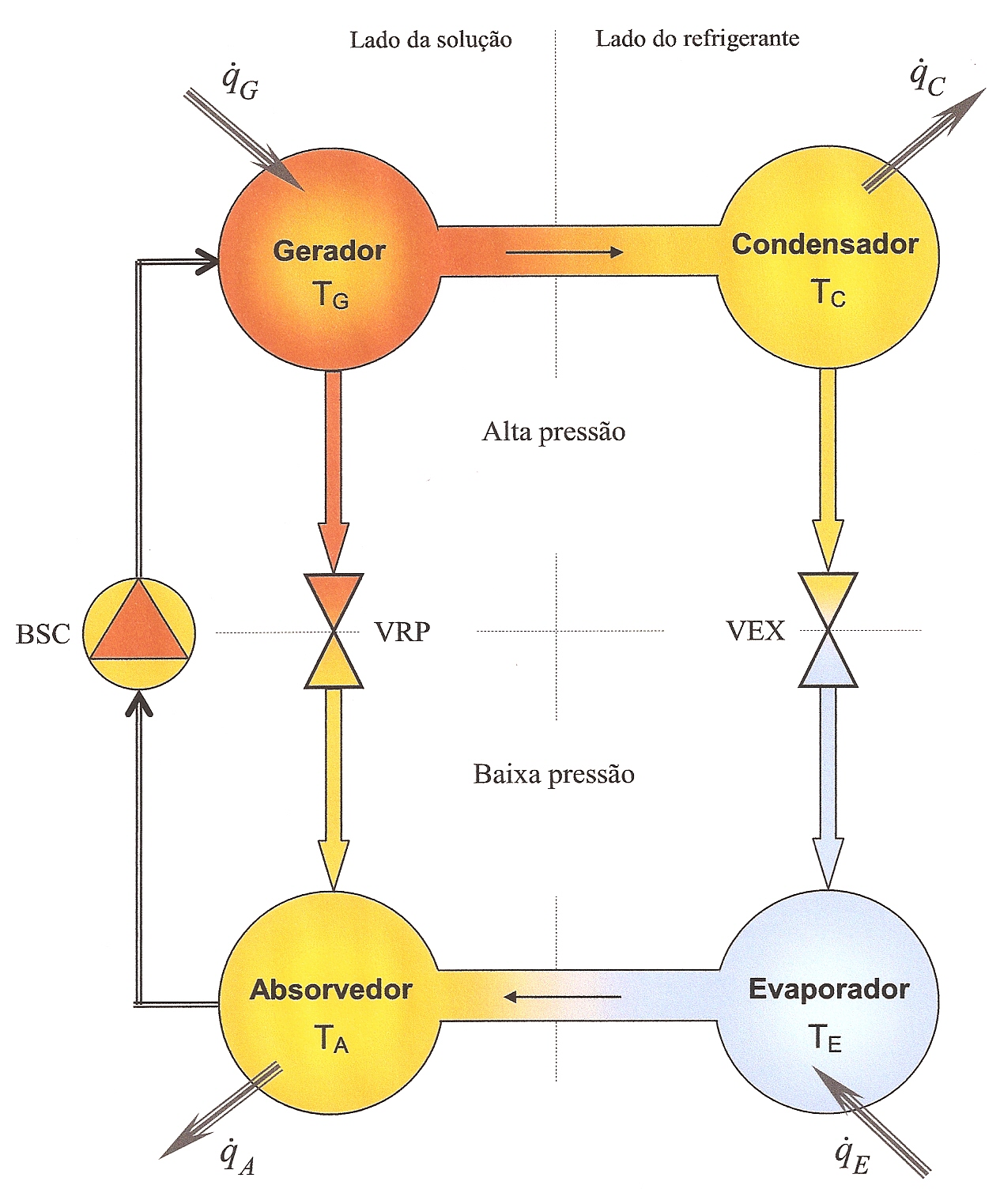 The figure shows an absorption refrigeration basic cicle diagram and its principal components.